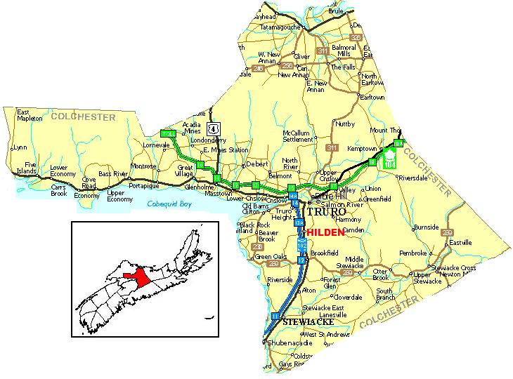 I created this file myself, and give Wikipedia and anyone else free use of it in perpetuity.